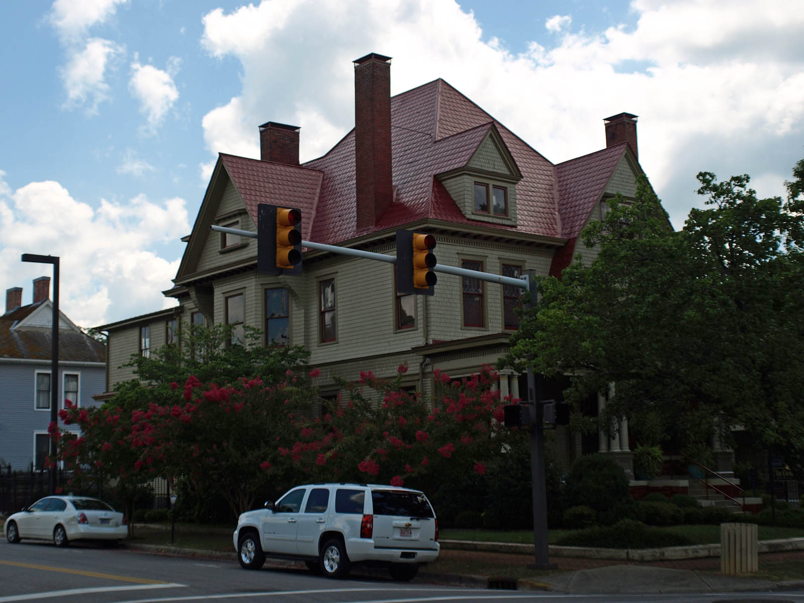 The Hundley House in Huntsville, Alabama, listed on the National Register of Historic Places.